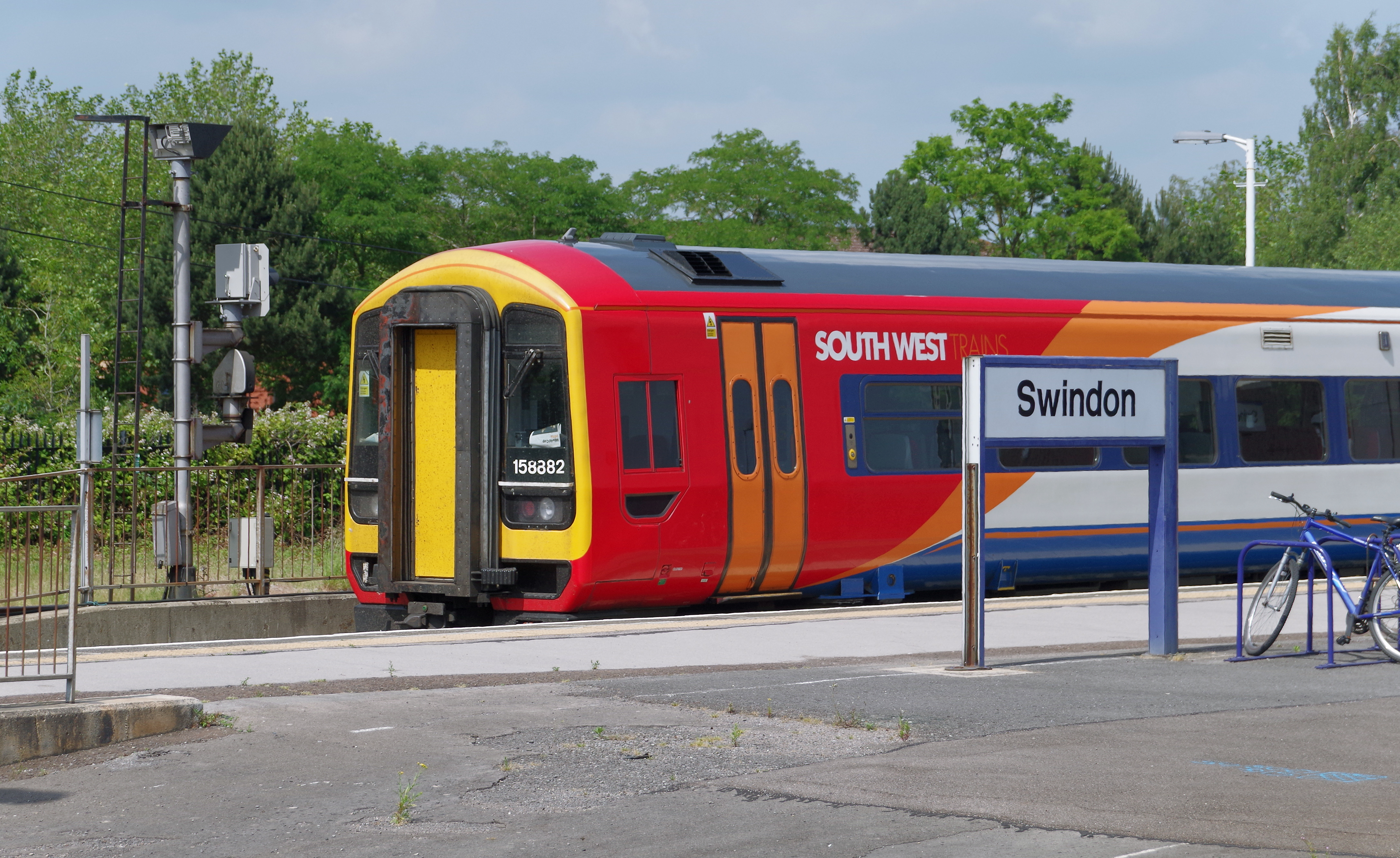 South West Trains class 158 "Express Sprinter" DMU 158882 stands at Swindon railway station, operating a First Great Western service from Cheltenham Spa.